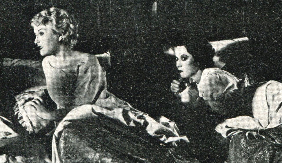 Il serpente a sonagli (Matarazzo 1935) - foto di scena